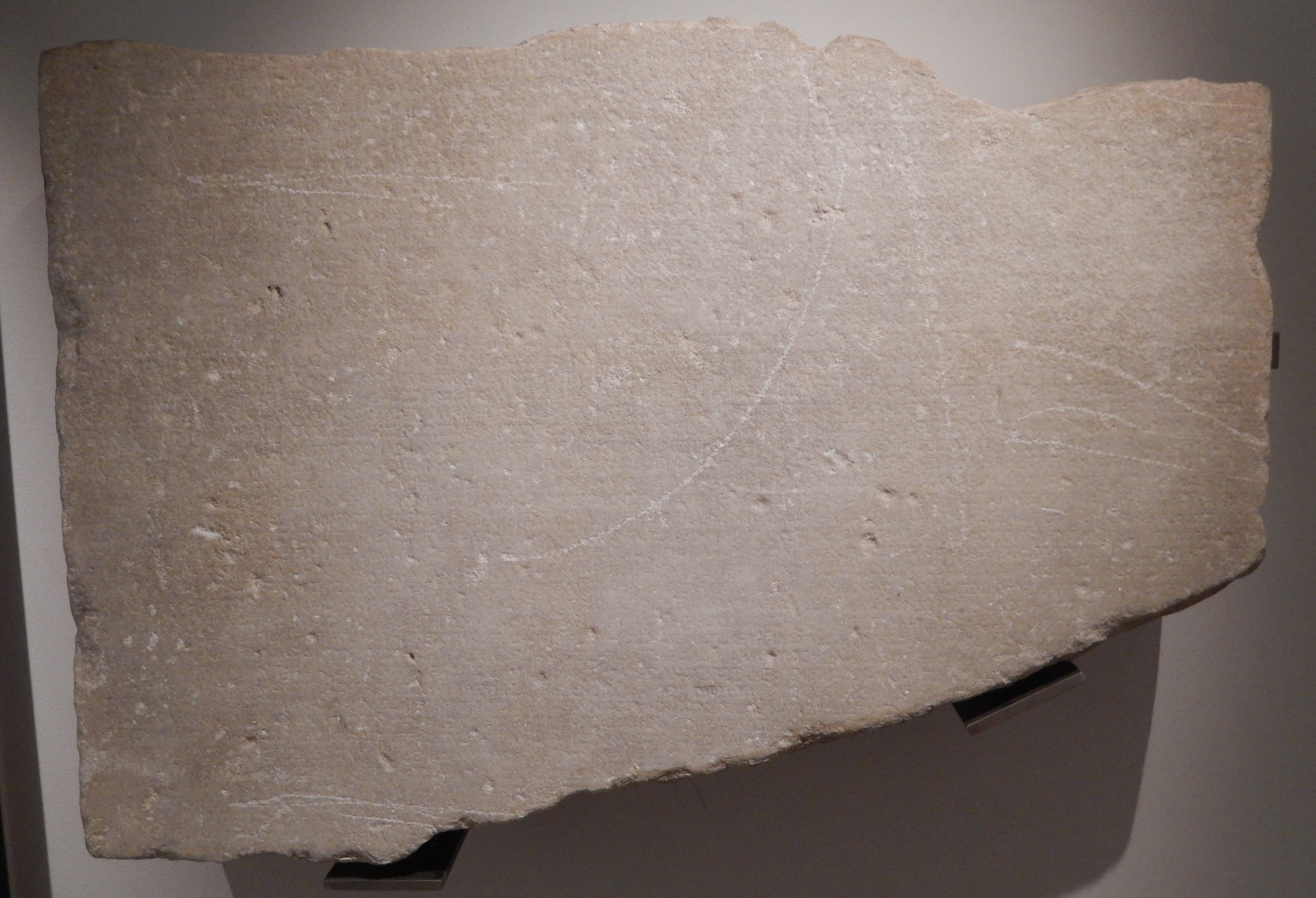 The Parian Marble, the oldest surviving example of a Greek chronological table, compiled on the island of Paros in 264/263 BC, listing important events going back to 1581/1580 BC. This is one of three known fragments of the inscription, which was acquired by Oxford University in 1667. A second fragment was lost in London during the Civil War; a third fragment was found on paros in 1897.